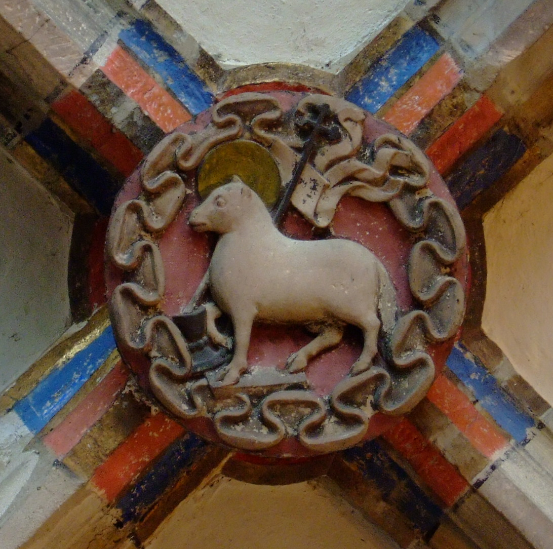 Headstone in the westhall of the Church Kilianskirche of Heilbronn - Germany, 2007, by J. Köhler